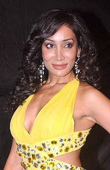 colors indian telly awards